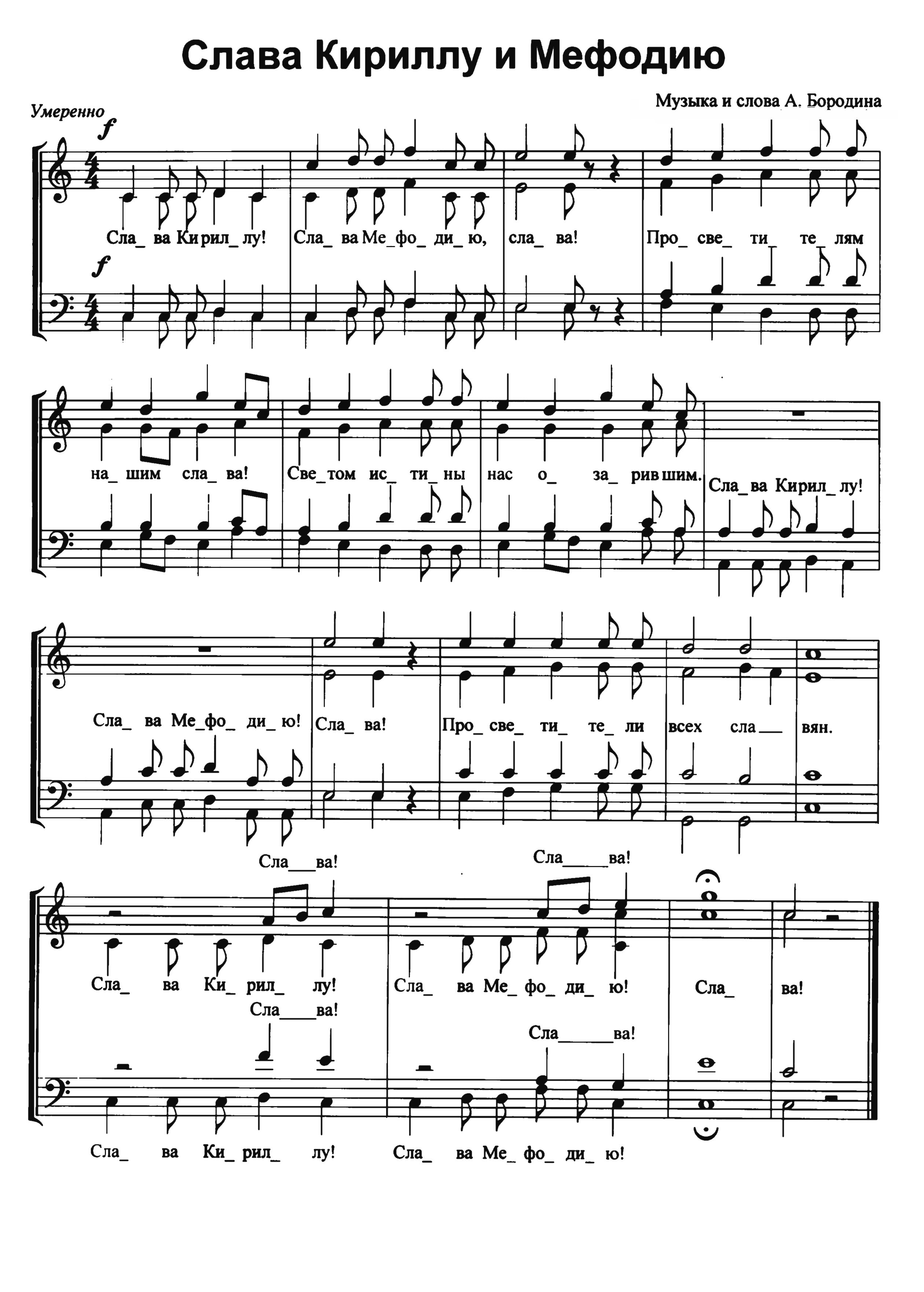 Alexander Borodin Borodin_Slava_Kirilu_i_Mefodiyu.jpg for chorus